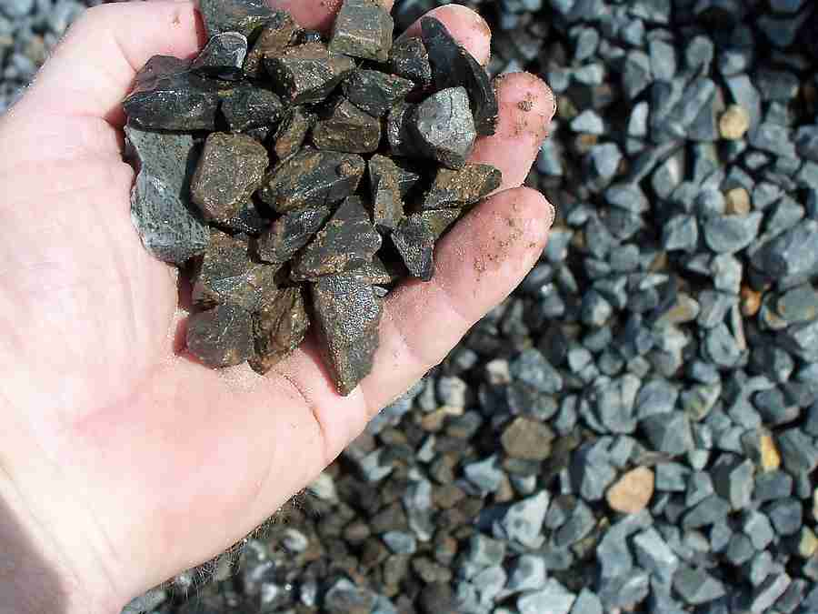 Photograph by Bill Bradley. billbeee 21:39, 24 October 2007 (UTC) Feel free to use it, just credit me as the photographer. You can contact me through my website, higher res. available.